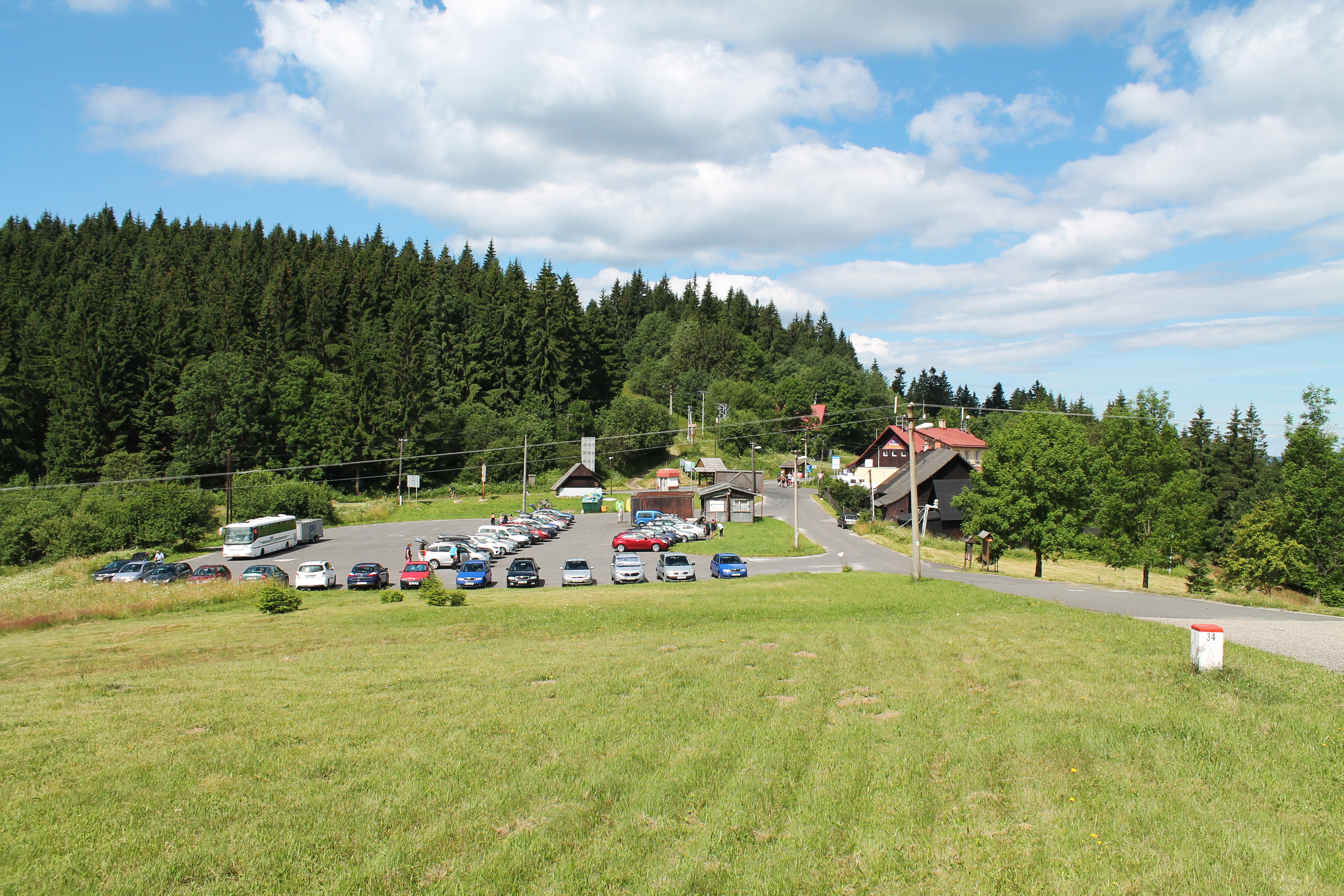 Bumbálka saddle: Vrbiniarovci, Makov, Čadca District, Slovakia / Bumbálka, Bílá, Frýdek-Místek District, Czech Republic